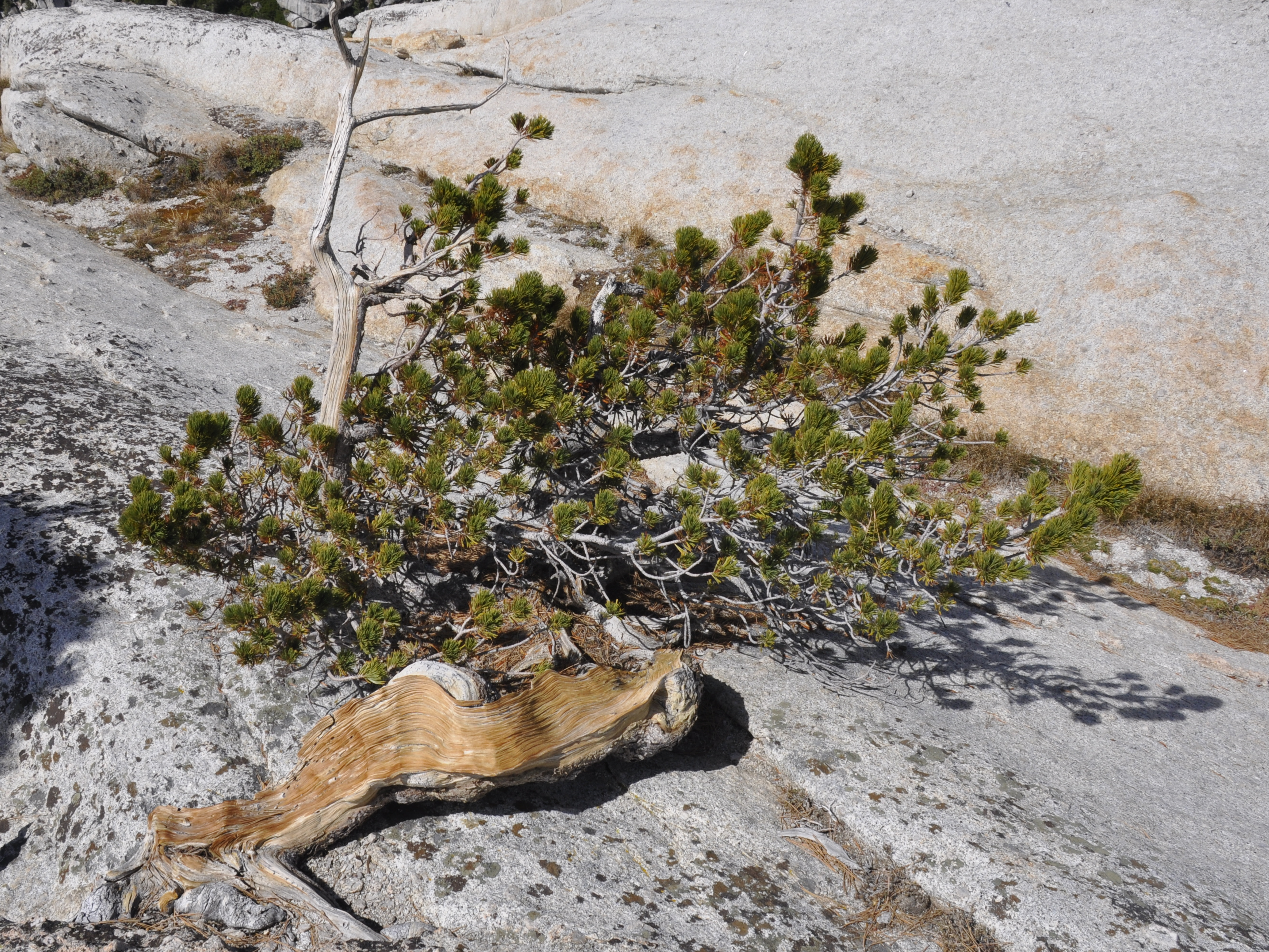 Whitebark pine Pinus albicaulis is the only type of tree on the summit of Pywiack Dome in the Tuolumne Meadows section of Yosemite National Park.